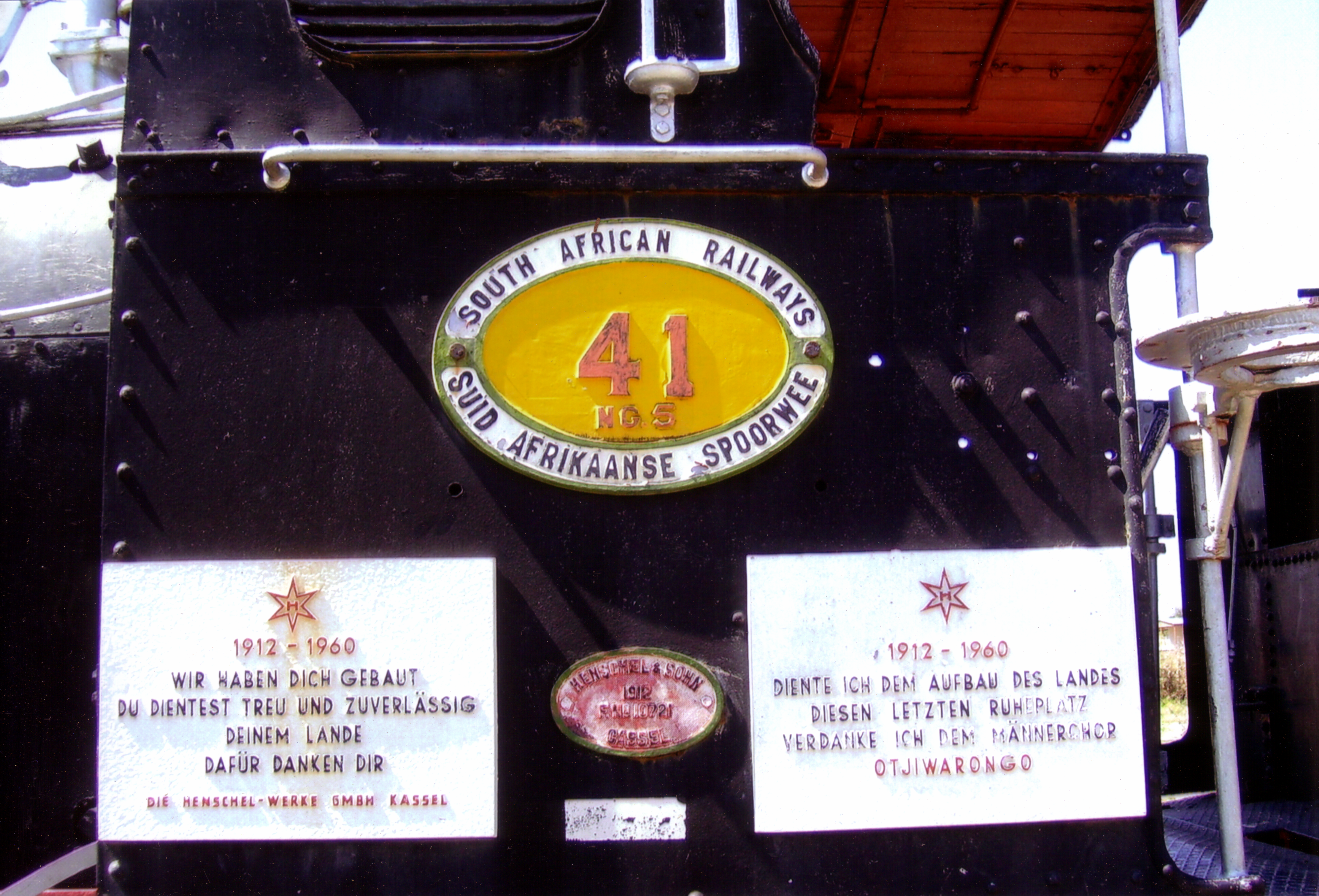 South African Class Hd 2-8-2 number SW41 at Otjiwarongo.